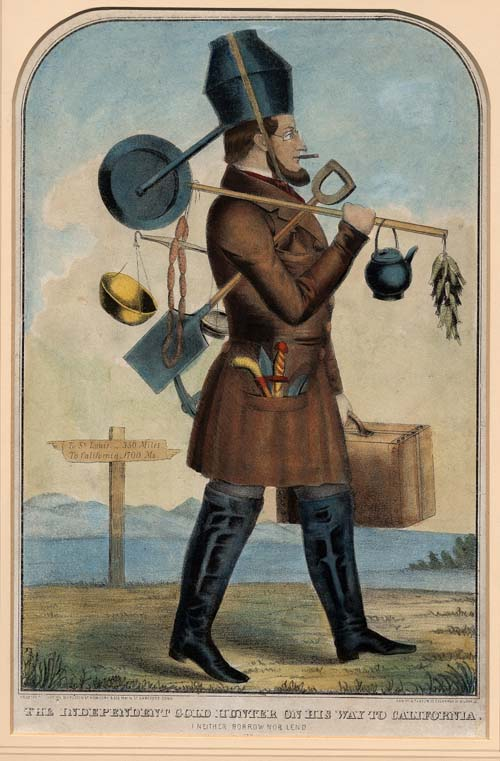 The gold mania of 1848 and 1849 inspired a number of satirical cartoons such as this comical print. The gold hunter is loaded down with every conceivable appliance much of which would be useless in California. The prospector wryly states: "I am sorry I did not follow the advice of Granny and go around the Horn, through the Straights, or by Chagres [Panama]." The Library possesses another version in black and white.